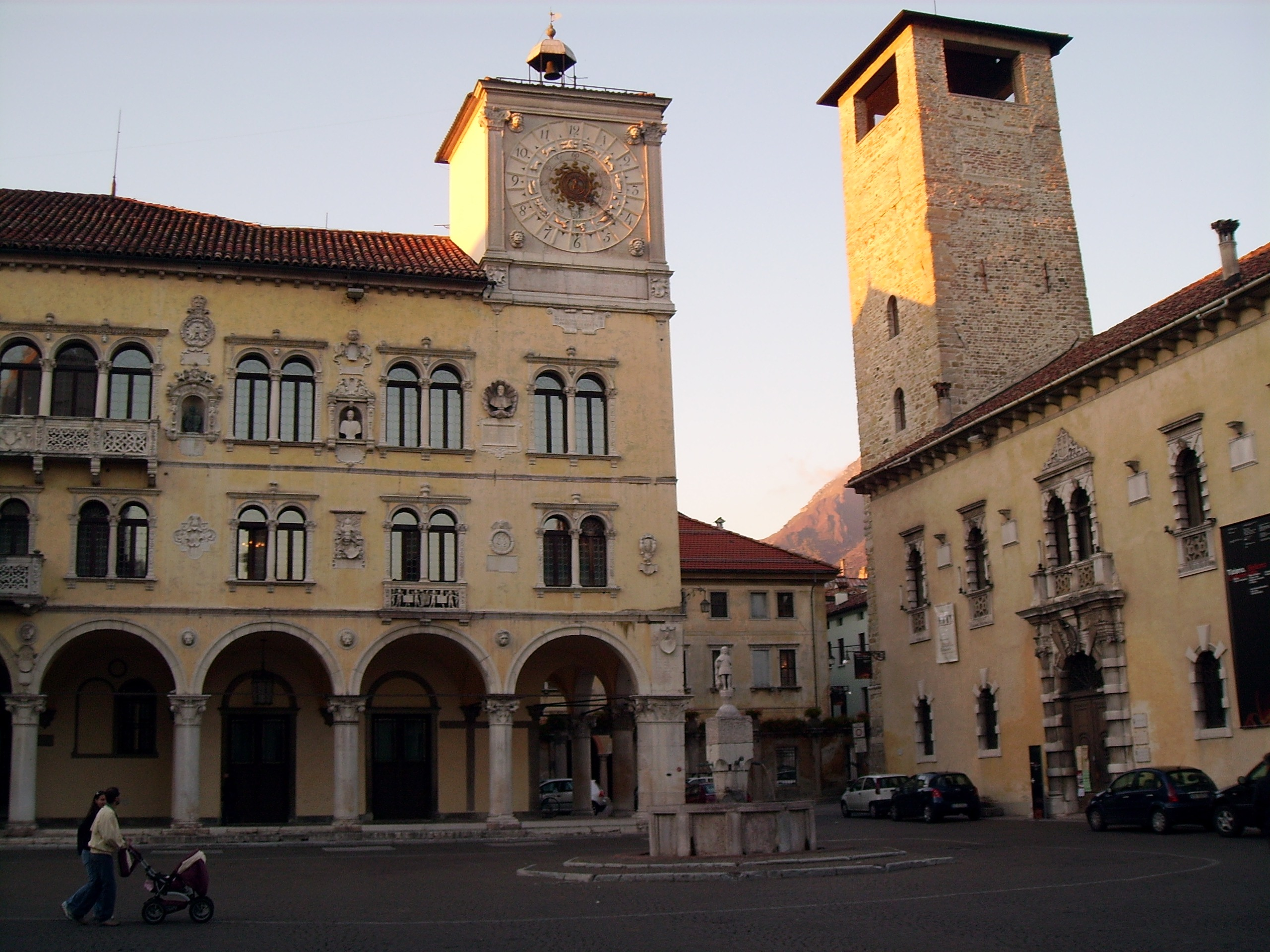 Duomo's (Dom) square,Belluno,Italy